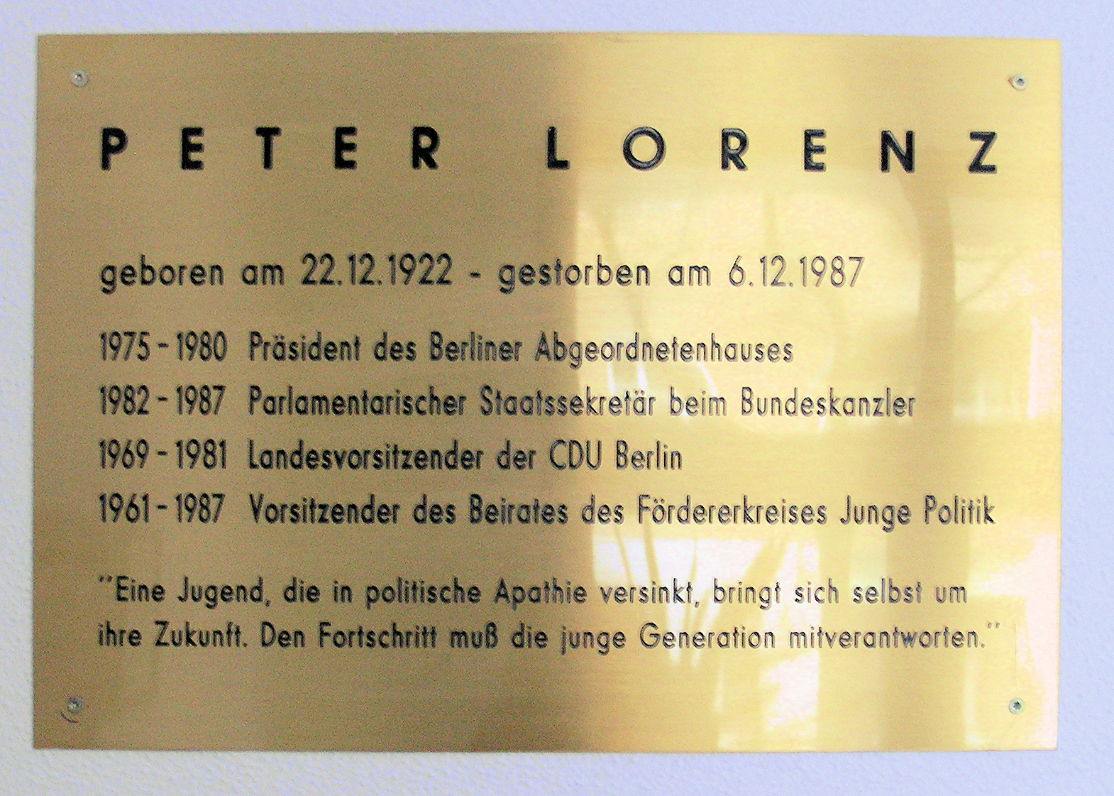 Memorial plaque, Peter Lorenz, Steifensandstraße 8, Berlin-Charlottenburg, Germany